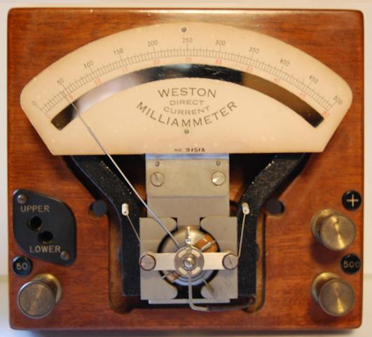 ammeter